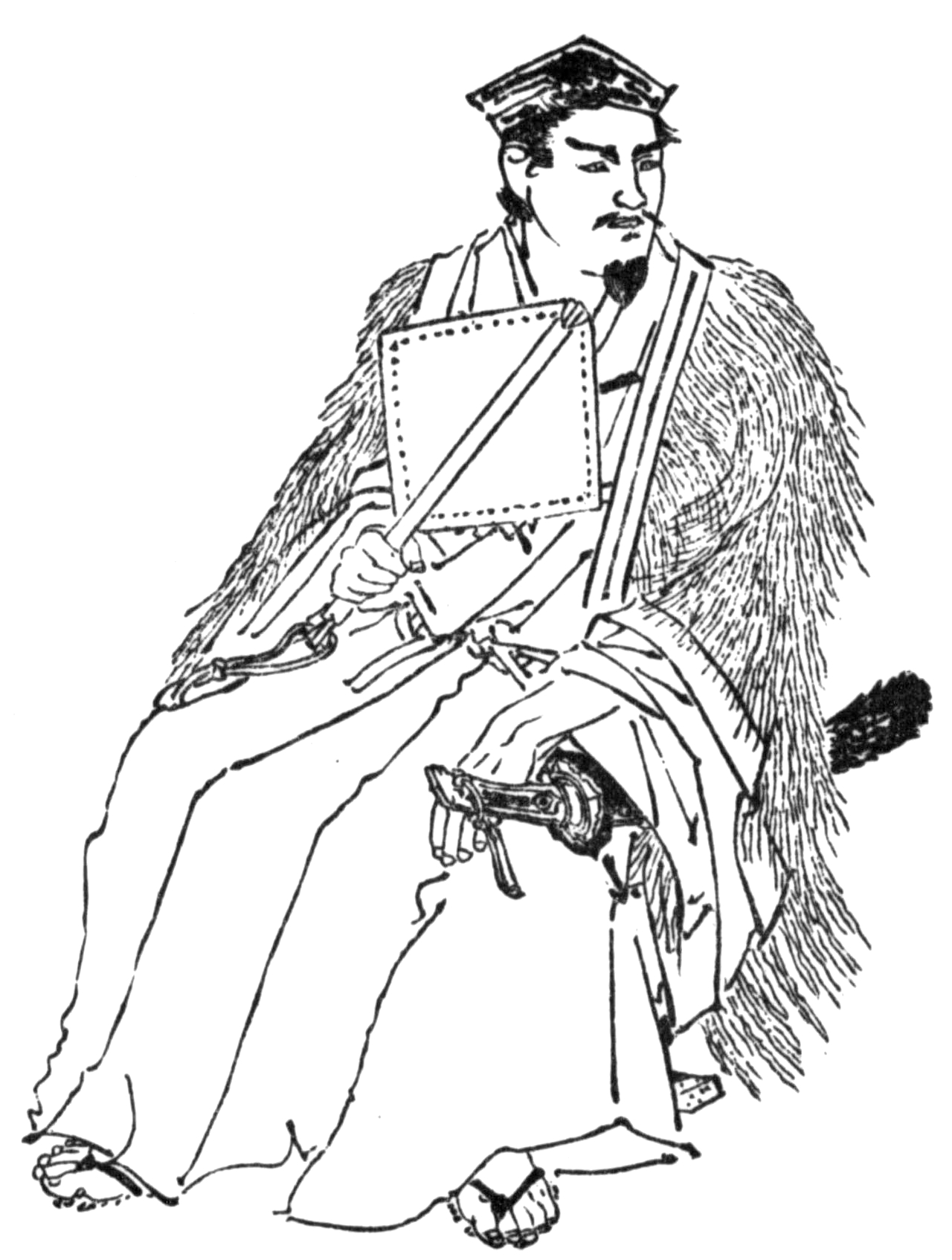 Kusunoki Masakatsu (from "Zenken Kojitsu")